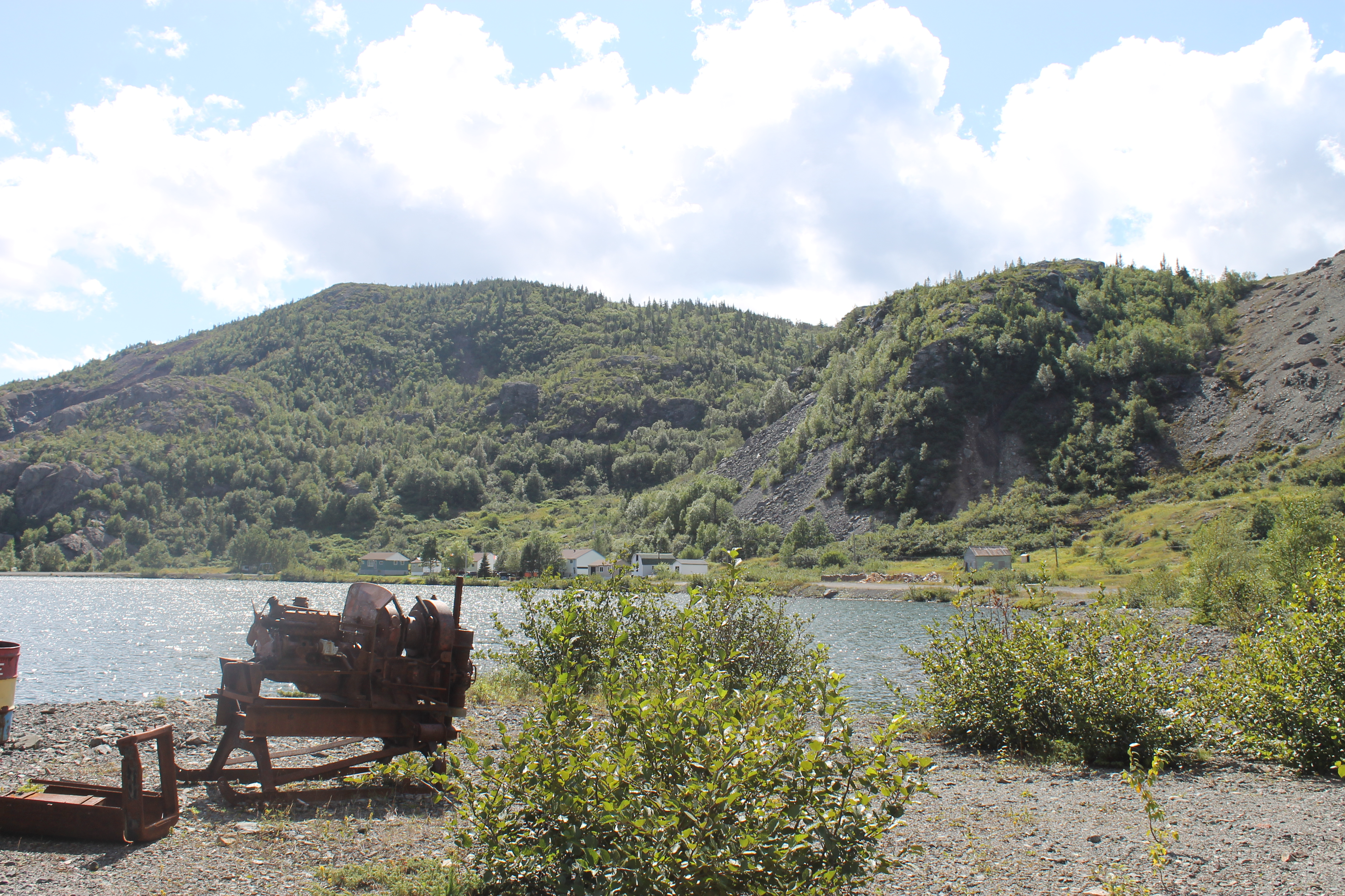 A view of Tilt Cove, Newfoundland and Labrador, Canada looking south.